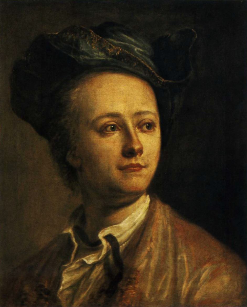 Depicted person: Karl Wilhelm Ramler